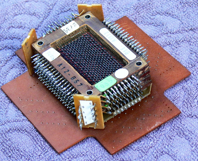 2048 bit core memory in four layers